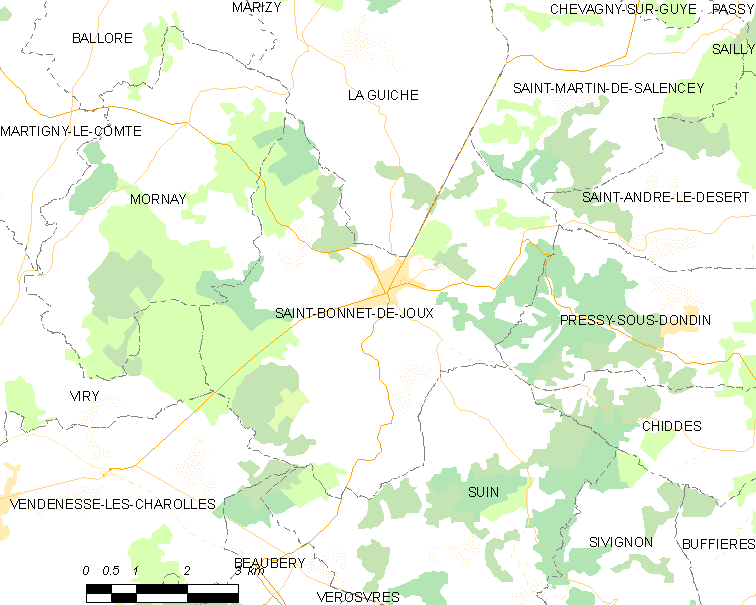 Map of French municipality